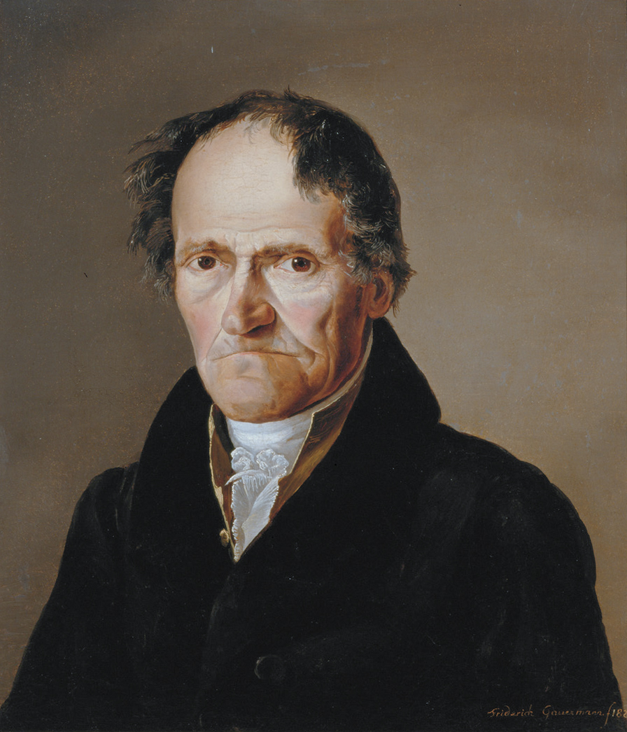 Anton Walter (1756 - 1826) oil on canvas 69 x 62 cm signed b.r.: Friderich Gauermann. f 1825